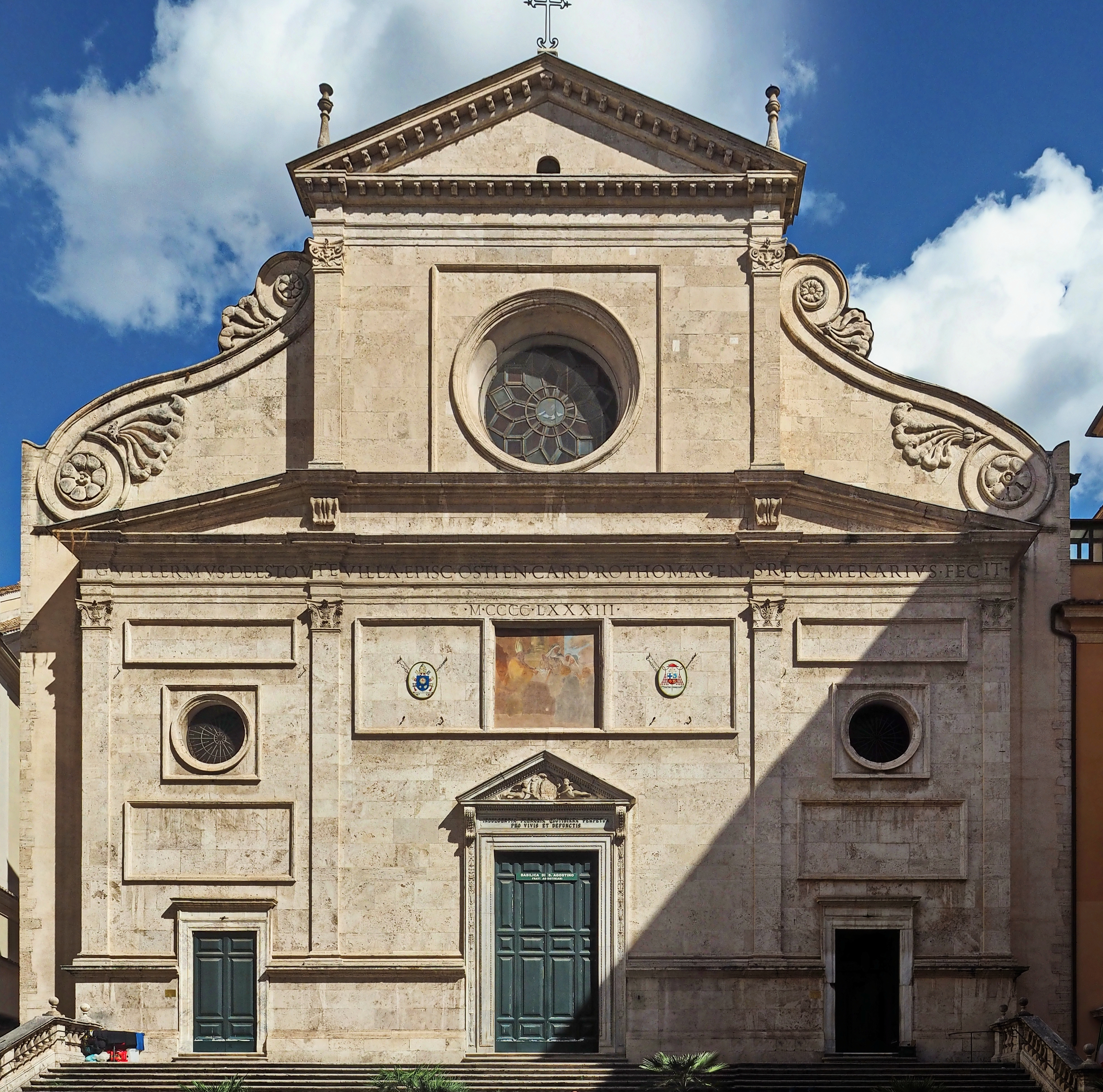 Sant Agostino (Rome); Front